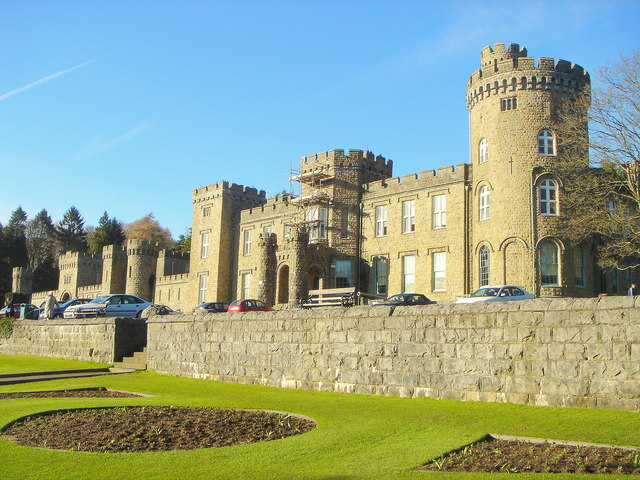 Cyfarthfa Castle, Merthyr Tydfil The iron master's residence Cyfarthfa Castle Cyfarthfa_Castle was built by William Crawshay II in 1824, overlooking the massive Cyfarthfa Iron Works Cyfarthfa_Ironworks below (and see archived photos of the iron works here ). This view shows the main facade of the building, which overlooks the valley to the west. Dominating the scene in medieval fashion with its castellated towers, it's no wonder that during the 1831 Merthyr Rising Merthyr_Rising_1831 the Chartist protesters came to Cyfarthfa Castle to protest their grievances against their main protagonist William Crawshay. In 1909 Cyfarthfa Castle was purchased for £19,700 from the Crawshay family and was opened as a public Museum and Art Gallery in 1910 . The building is currently (2008) home to the Cyfarthfa Castle Museum and Art Gallery and the Cyfarthfa High School .